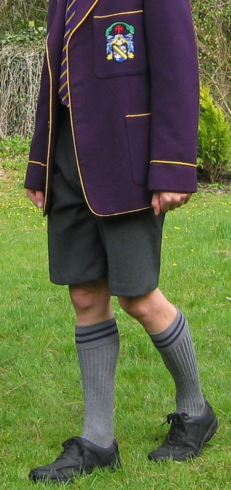 A British schoolboy wearing a traditional grey school shorts uniform